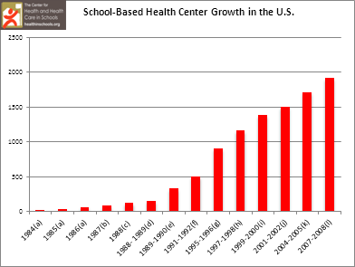 A chart displaying the growth in school-based health centers across the U.S., from 1984 to 2008.